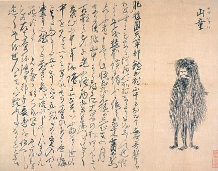 The apparition of Japan,山童（Yamawarawa）